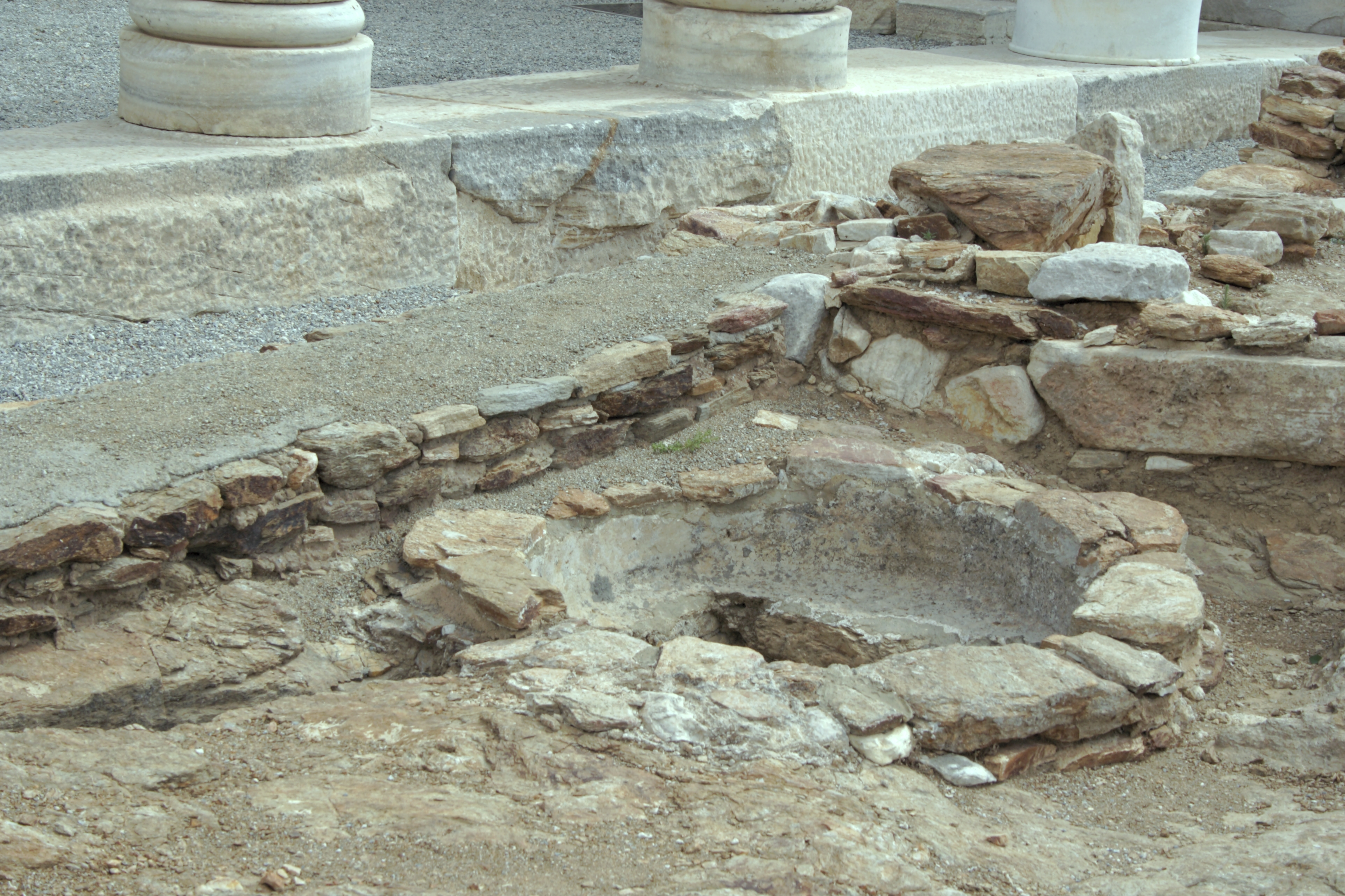 Demetrion in Gyroulas at Sangri on Naxos. Water system and sacrificial pit (?) before the Temple.